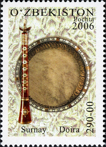 Stamps of Uzbekistan, 2006